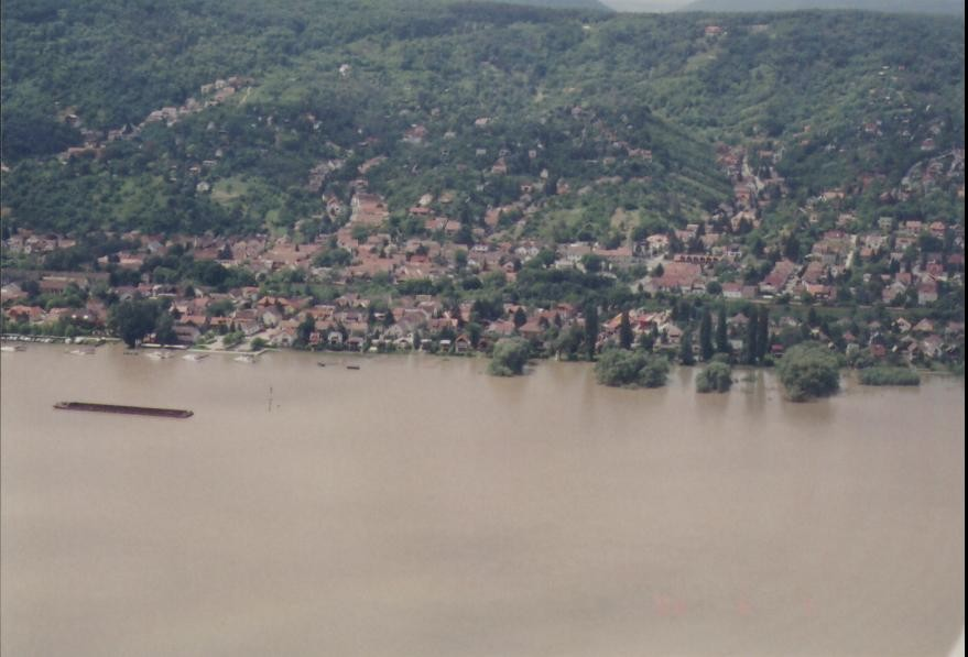 Aerial photograph of Visegrad